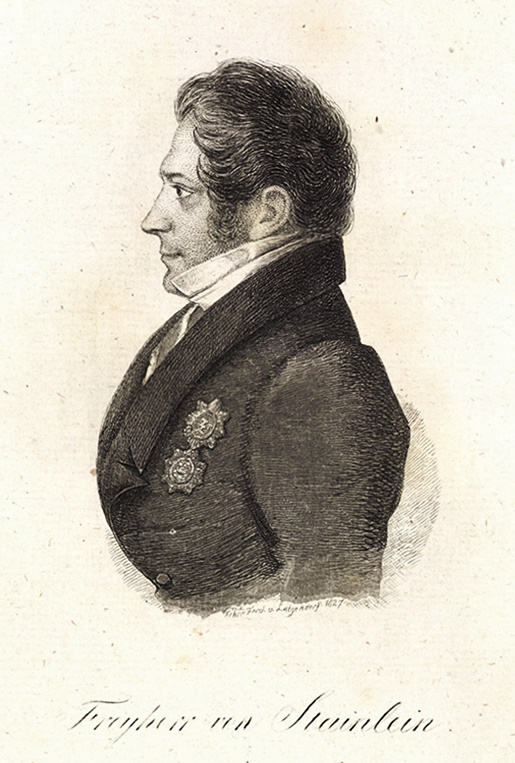 Johann Gottlieb Eduard von Stainlein (1785-1833), bayerischer Gesandter in Wien (Freiherr, ab 1830 Graf)